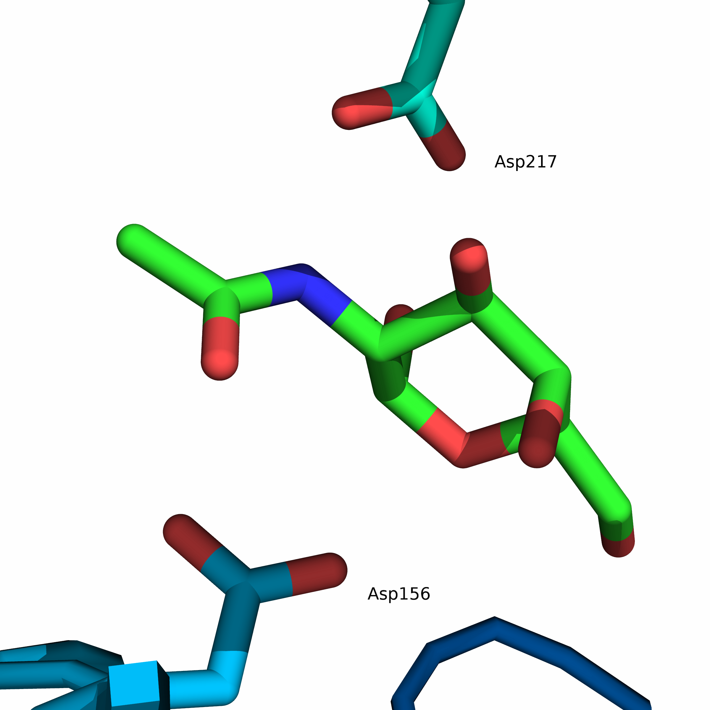 Active site of the enzyme nagalase with N-acetylgalactosamine as substrate.